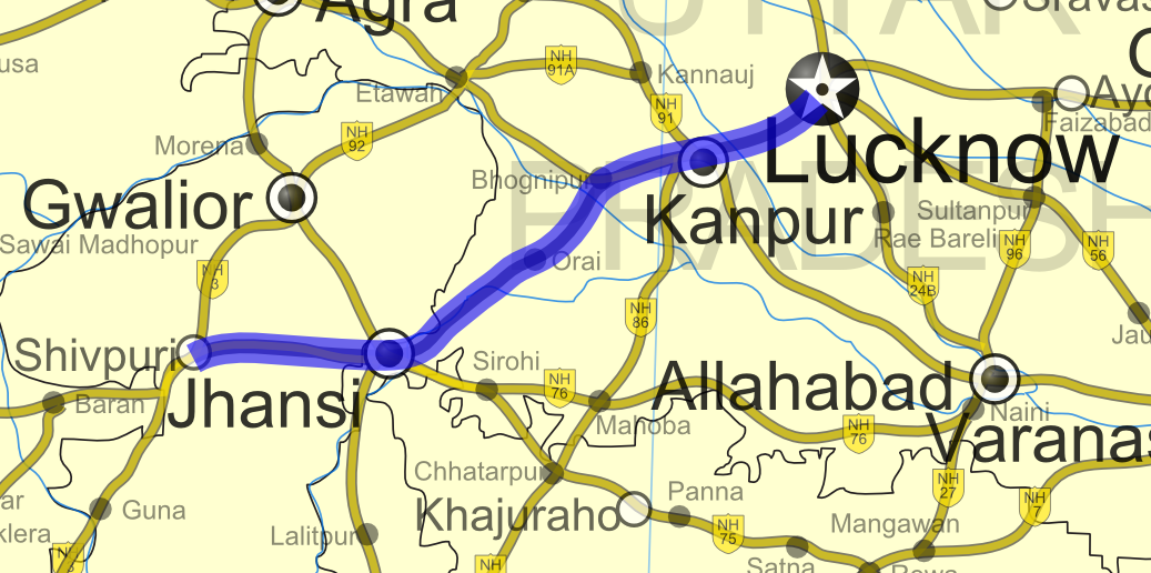 Map showing the national highway network in India. Includes NHDP projects upto phase IIIB which is due to be completed by December 2012. For actual progress of the NHDP refer to the maps below.